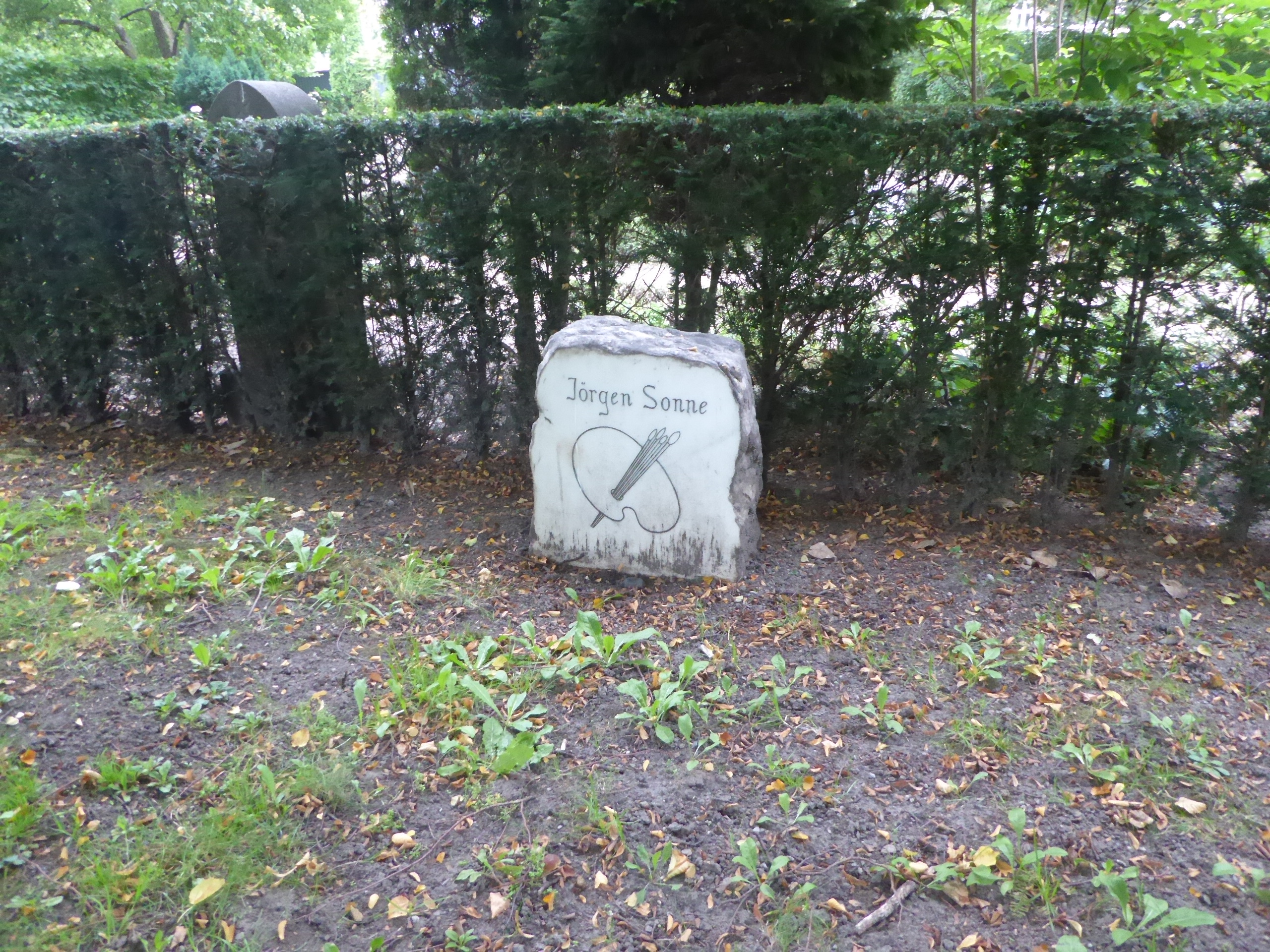 Grave of the painter Jørgen Sonne (1801-1890) at Holmens Kirkegård in Østerbro in Copenhagen.